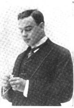 Photo of Ben Taggart (1889 - 1947), American actor